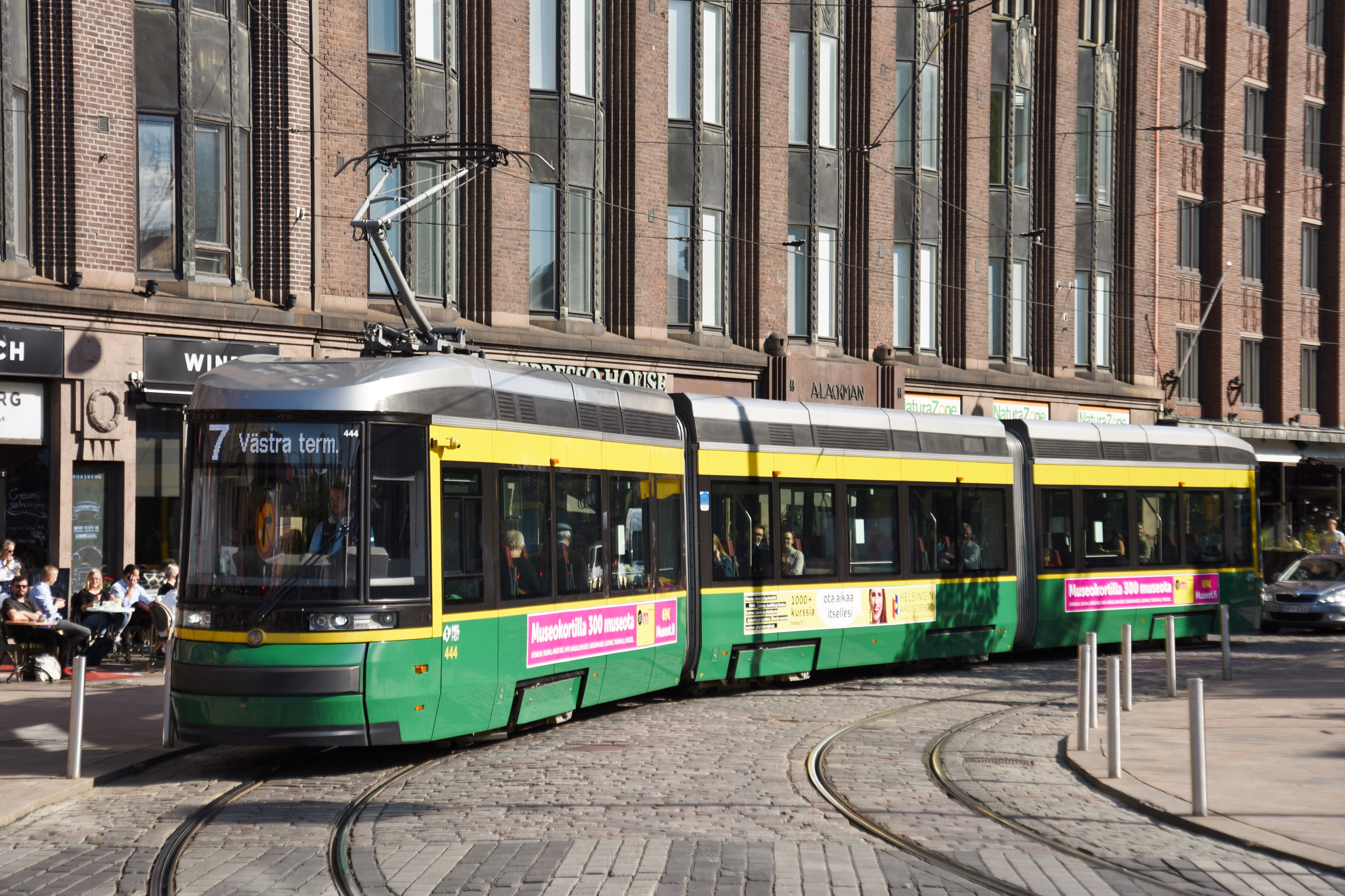 View of Helsinki City Transport (HKL HST) Artic tram no. 444 in Mikonkatu, Helsinki